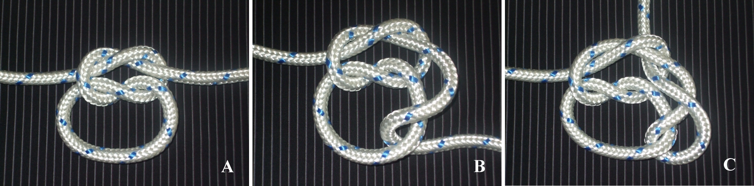 Chefalo knot-steps of tying